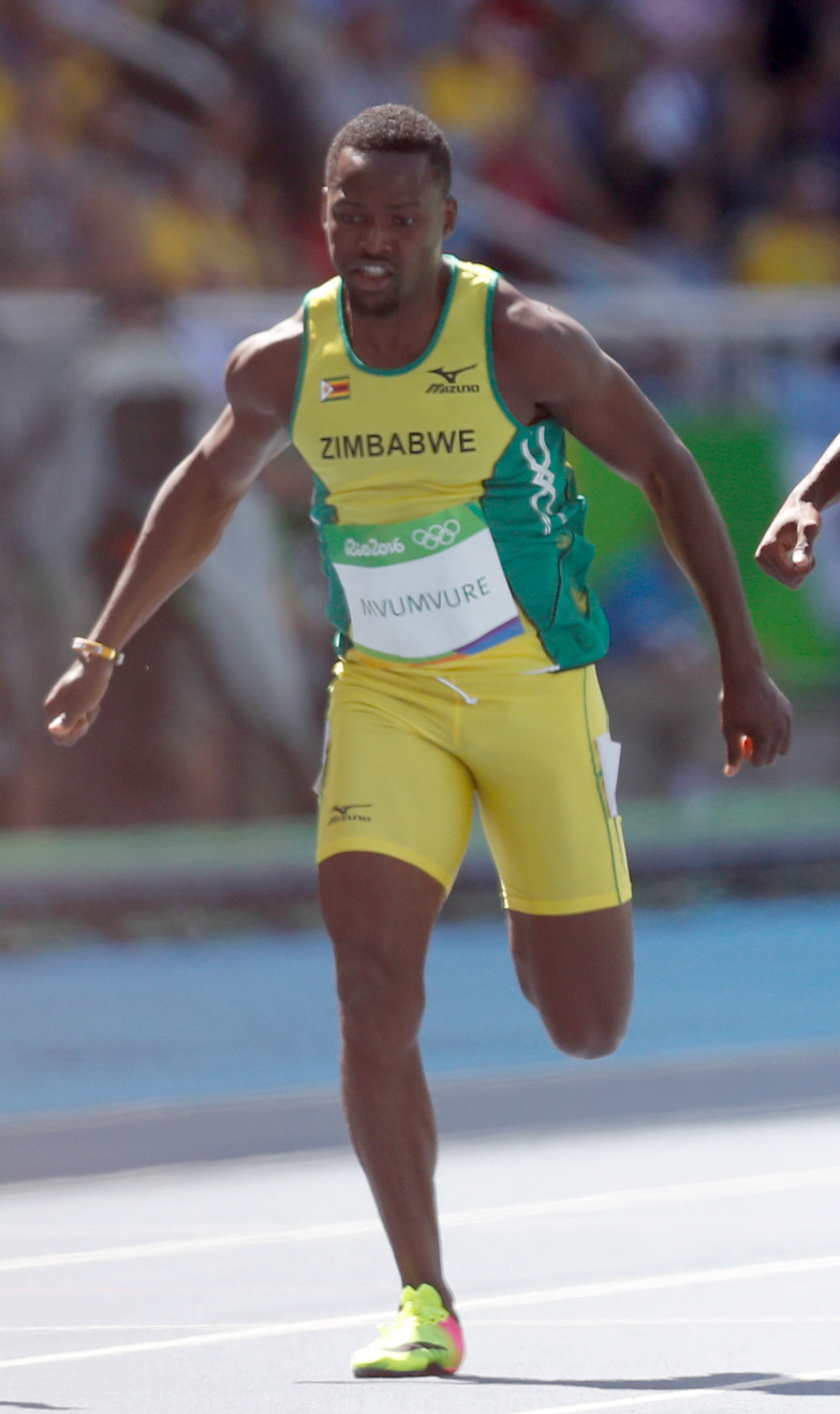 Men's 100 m sprint heats, Rio Olympics